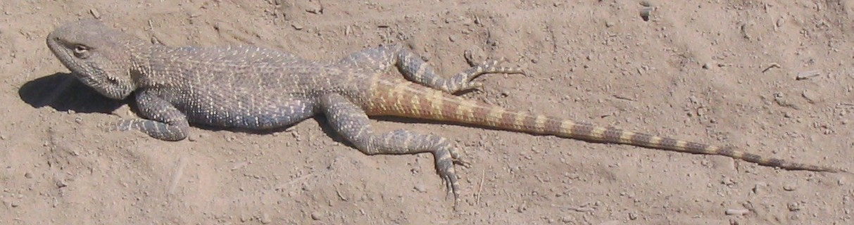 Trapelus sanguinolentus aralensis; Qyzylorda province